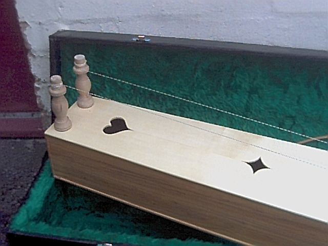 Picture of Icelandic fidla, "Fiðla"